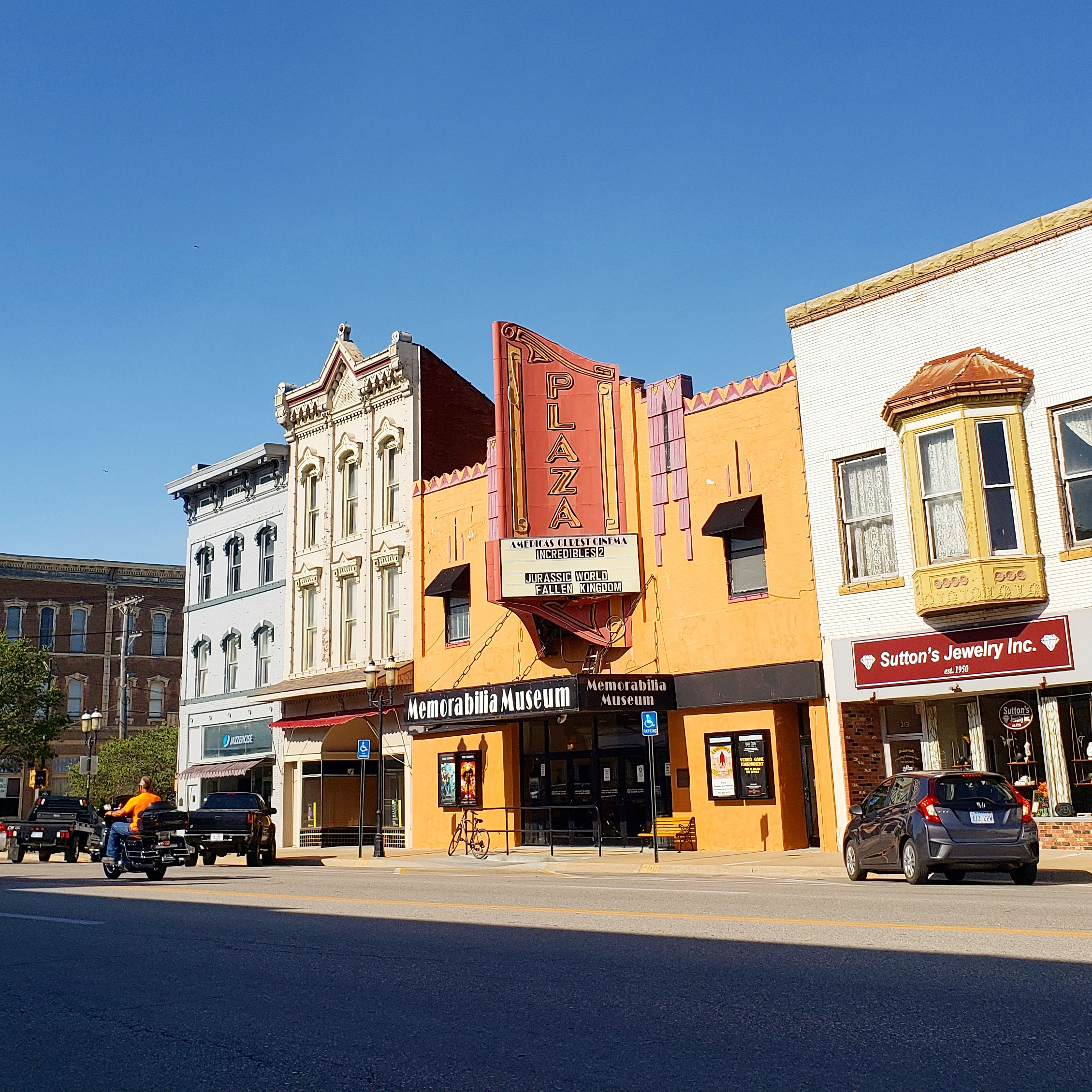 Photo by Ian Ballinger